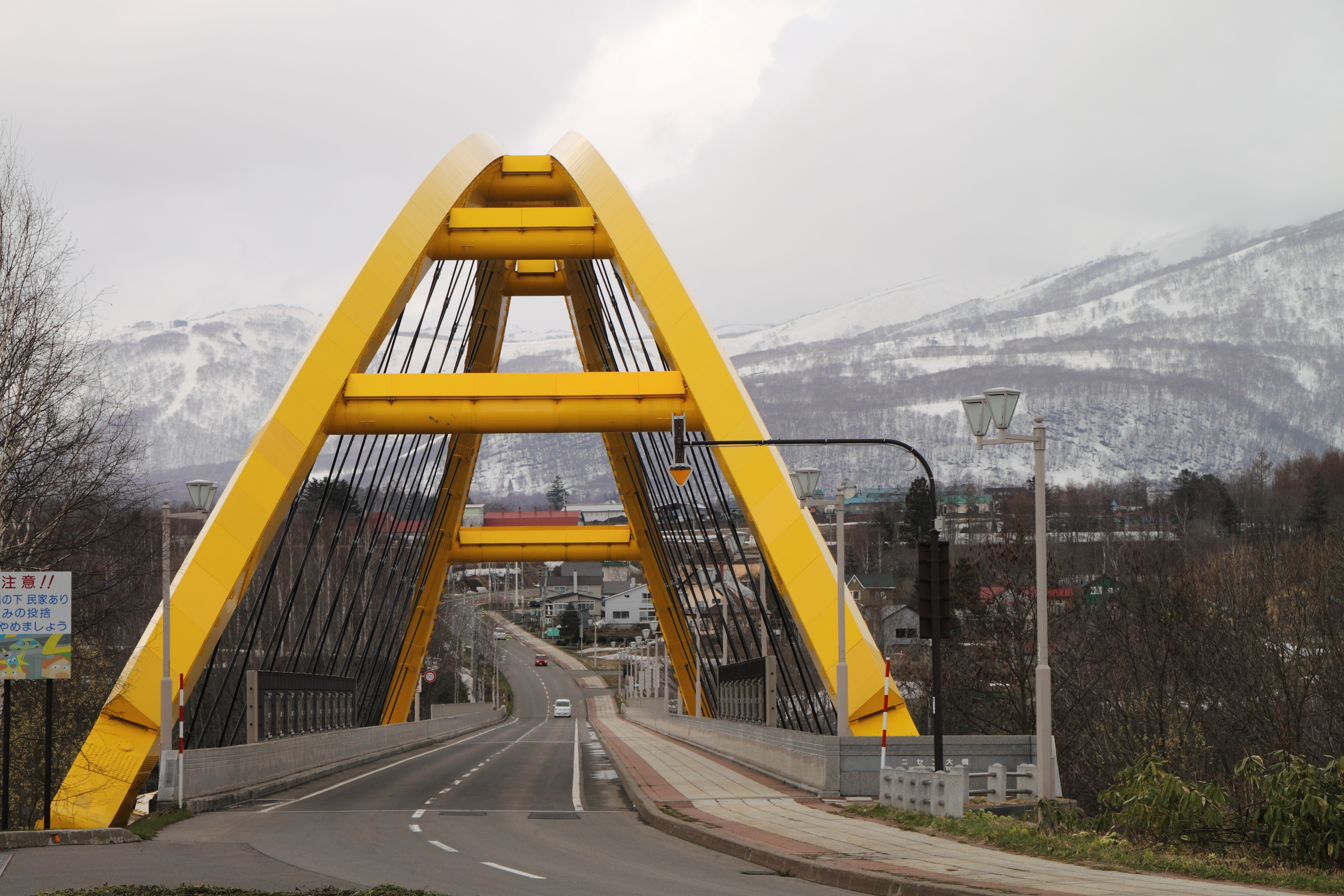 Niseko Ohashi bridge, Niseko, Hokkaido, Japan